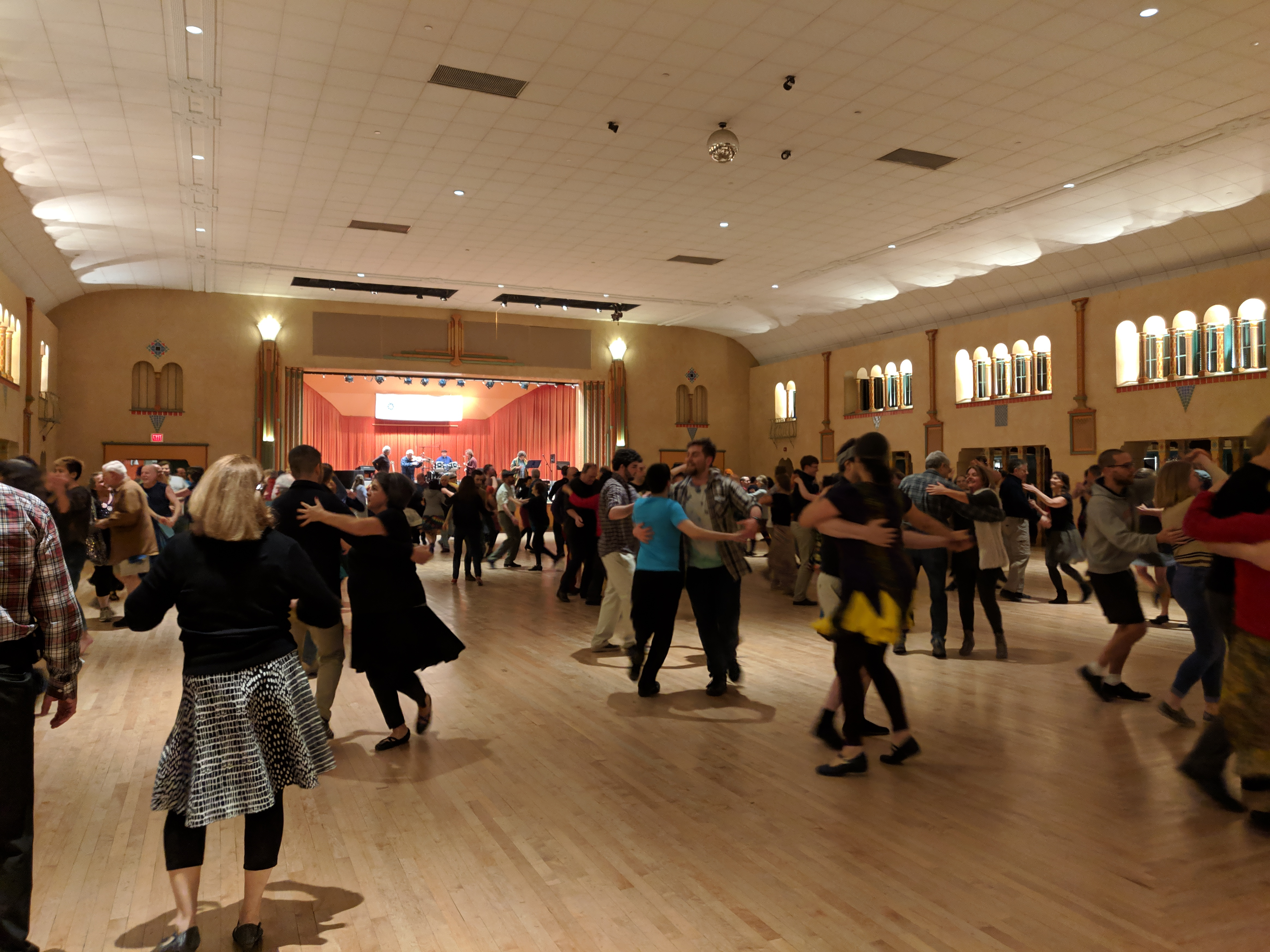 Contra dancers at a Friday night dance at Glen Echo Park in January 2019